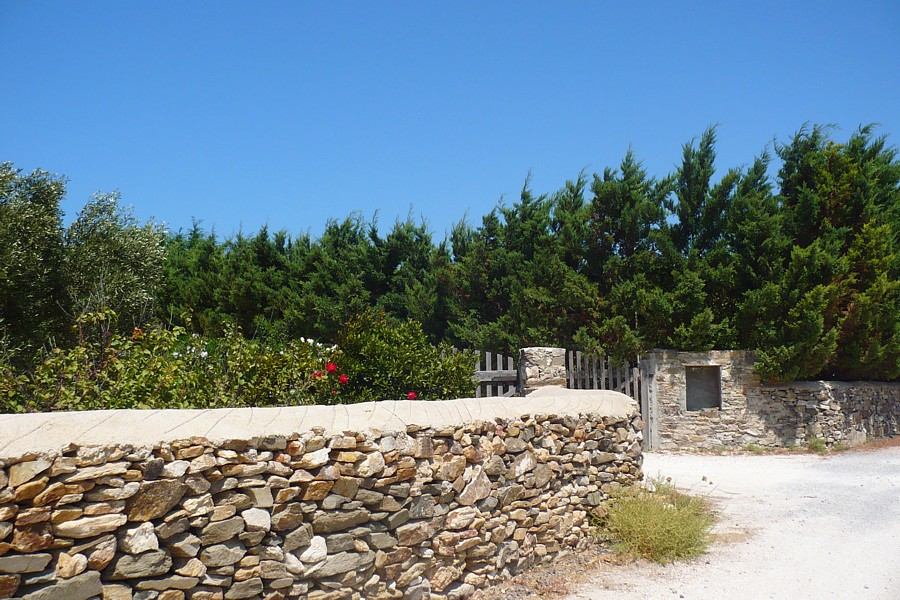 Kampos villas